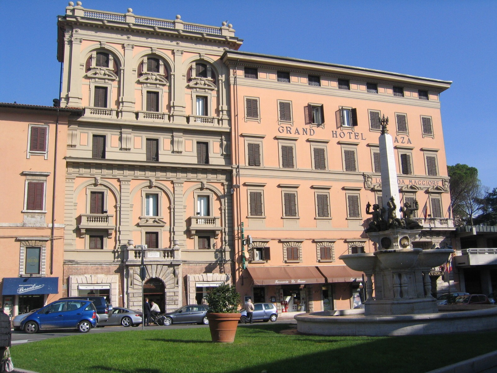 Montecatini Terme, Town center